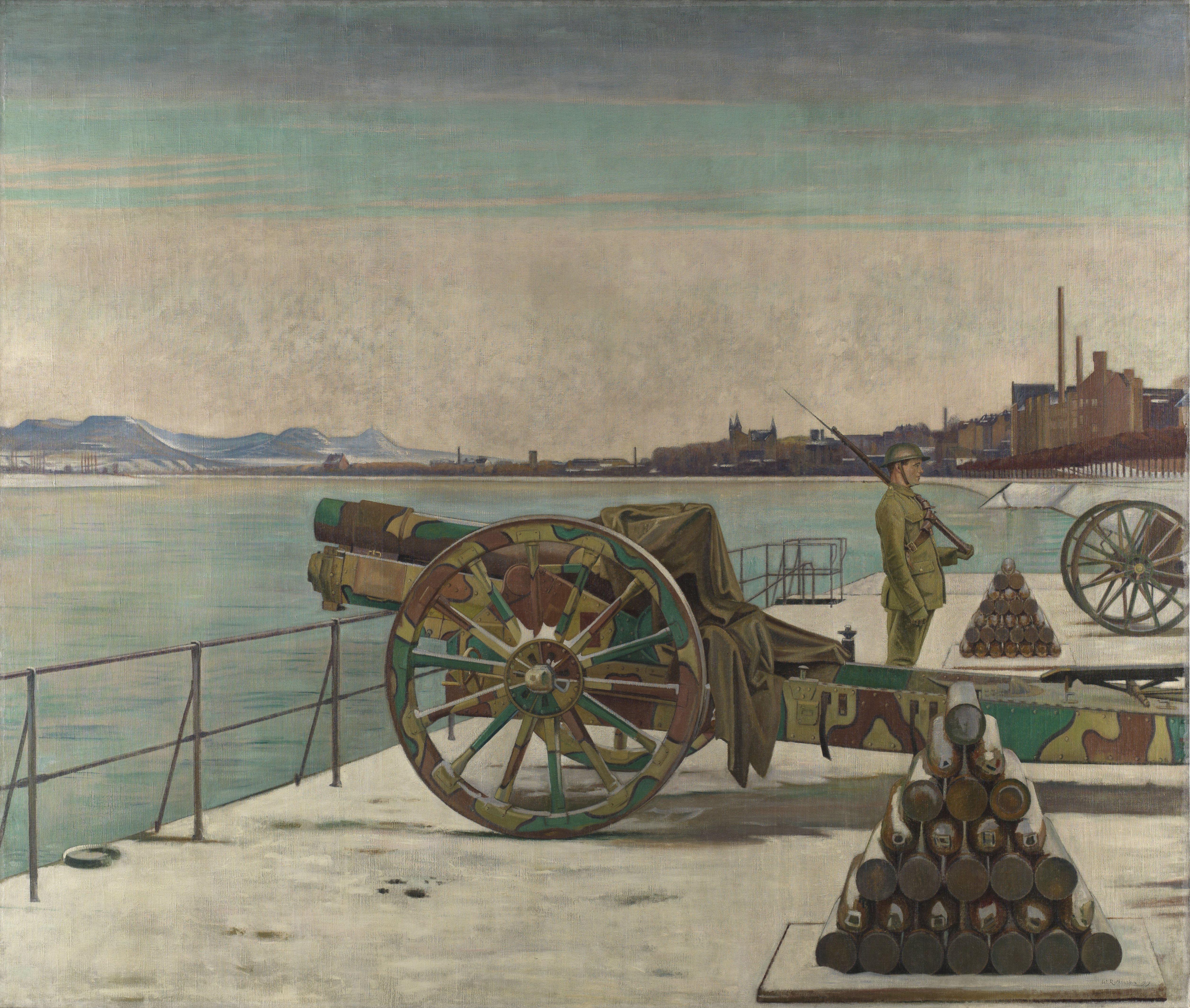 The Watch on the Rhine (The Last Phase) was originally exhibited in Canada as part of the Canadian War Memorials exhibitionn in 1920. The painting's many symbolic elements represent Germany's defeat and the triumph of the Allied forces. In the foreground, a British Howitzer faces out across the Rhine. The painting's powerfull imagery is reinforced by the artist's emphasis on the enormous gun. A British sentry stands on guard to one side. The 1920 exhibition's accompanying catalogue noted that both the old Germany and the new Germany were denoted through the contrast of the ancient hills and the new factory chimney. William Rothenstein (1872-1945), a british artist, was born in Bradford, Yorkshire. He worked as an official war artist for the Canadian War Memorials Fund between 1917 and 1918, and served as an official artist to the Canadian Army of Occupation in Germany from 1919 to 1920.